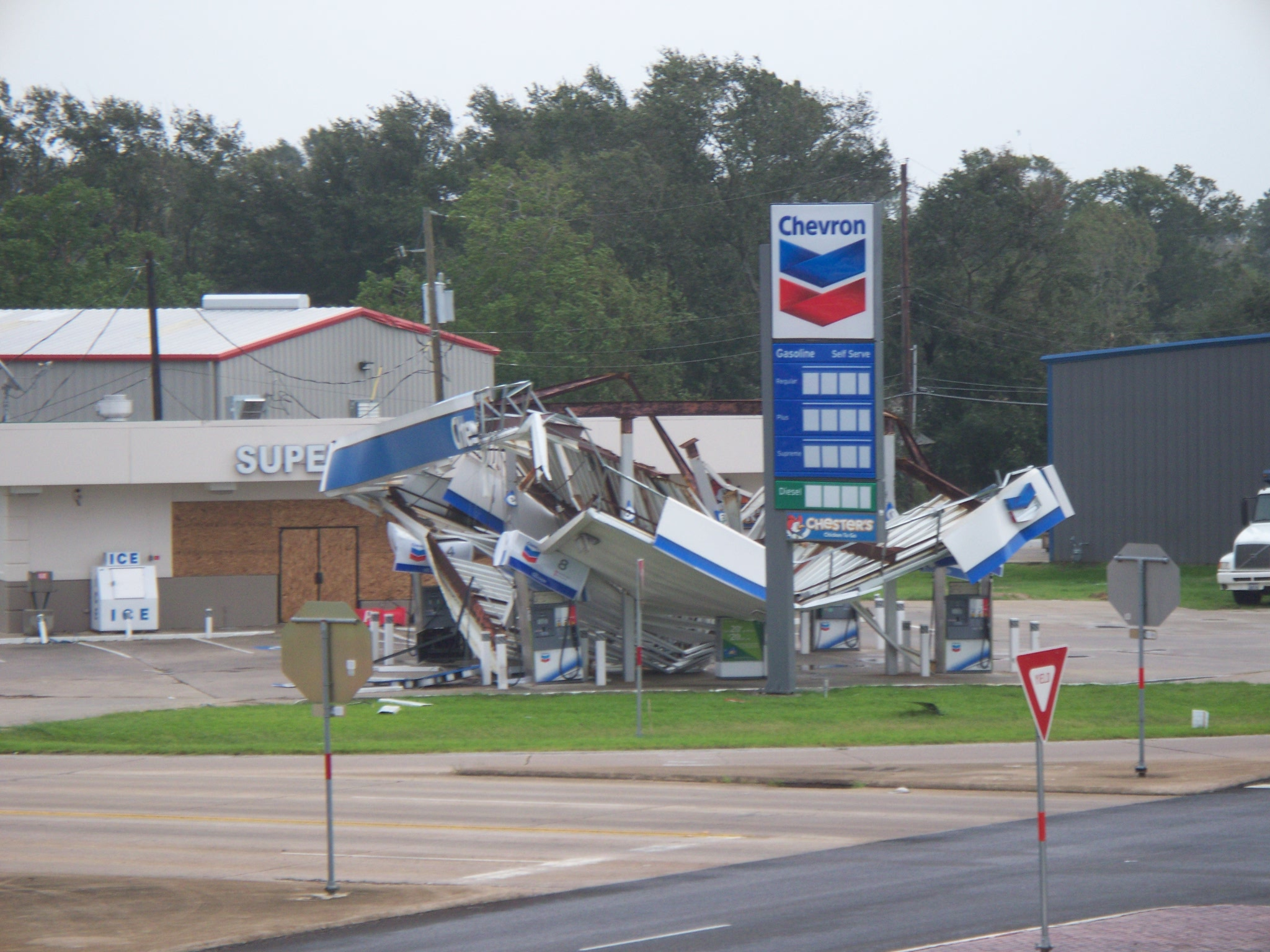 A Chevron gas station near Nederland, Texas is damaged by Hurricane Ike.